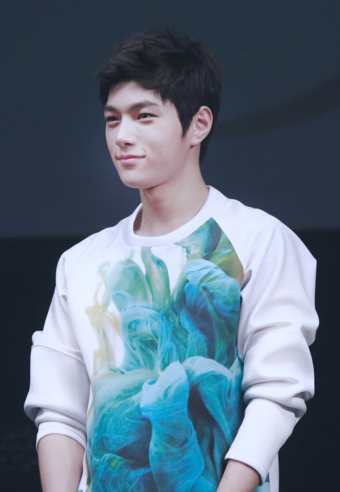 Myungsoo in Showcase INFINITE-F in Tokyo on November 26, 2014.